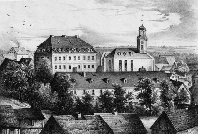 manor Rodau, Saxony in its estate of 1859